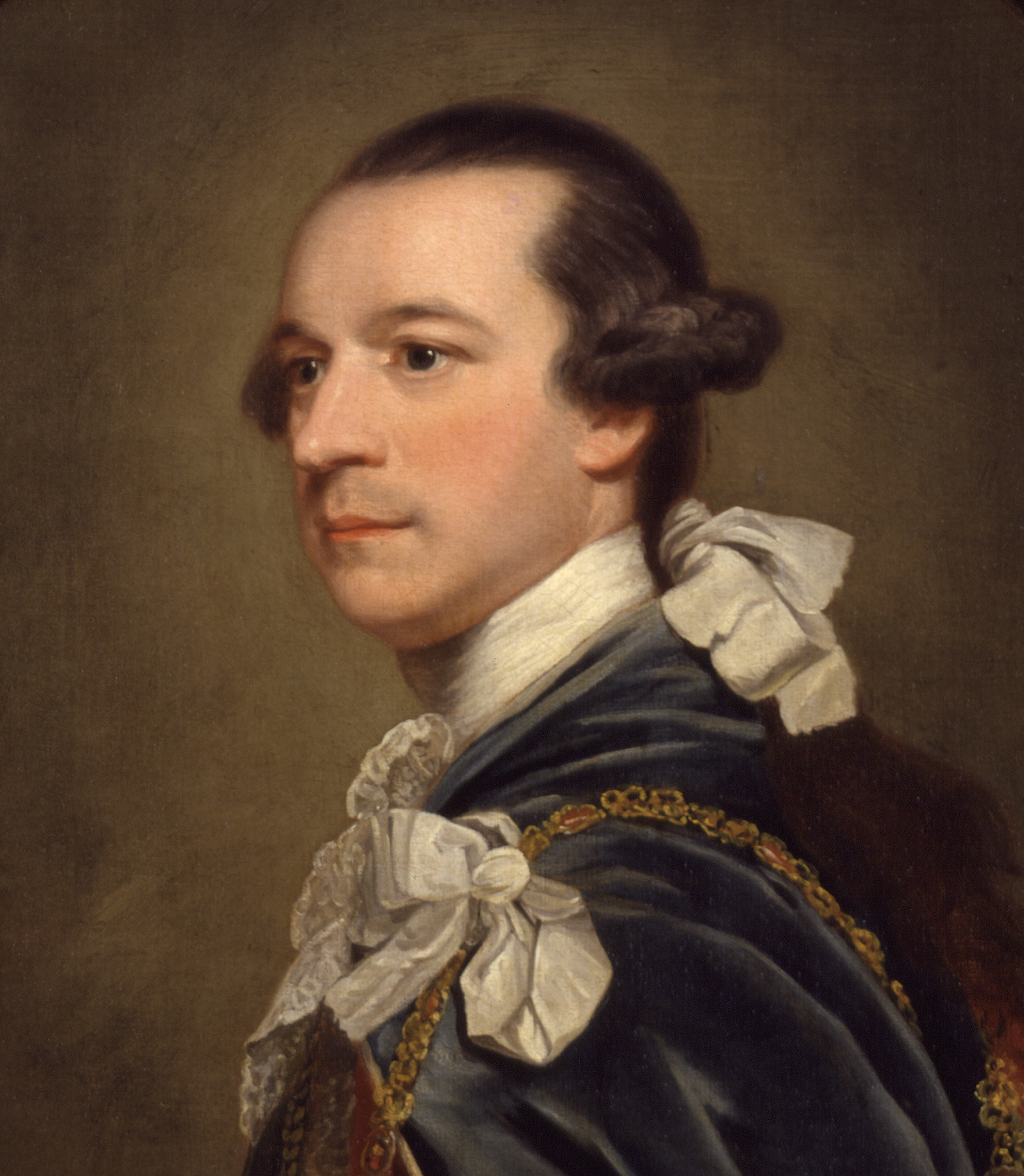 Portrait of Charles Watson-Wentworth (1730–1782)